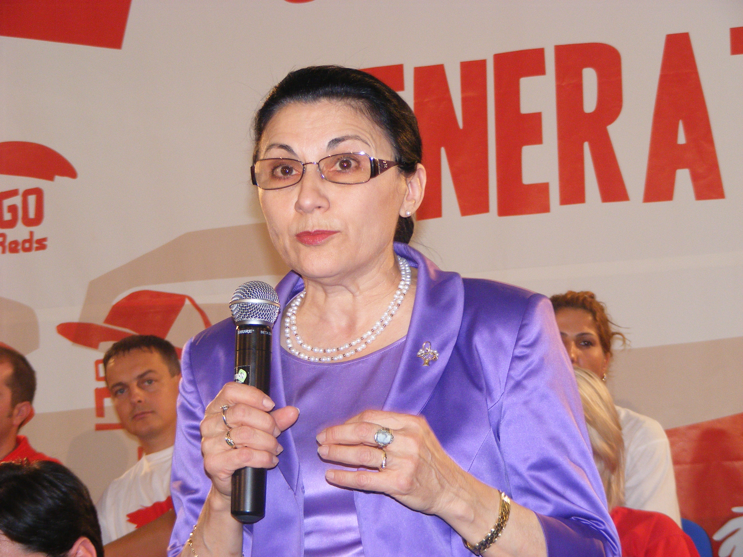 Romanian politician Ecaterina Andronescu speaks to Social Democratic Youth members in Otopeni, September 2009